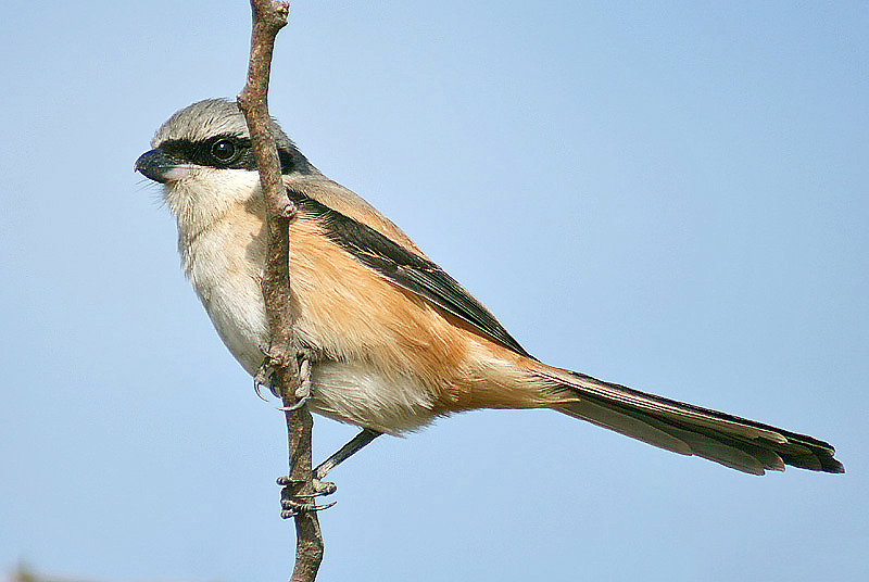 Long-tailed Shrike (Lanius schach) at/ near Hodal in Faridabad District of Haryana, India.